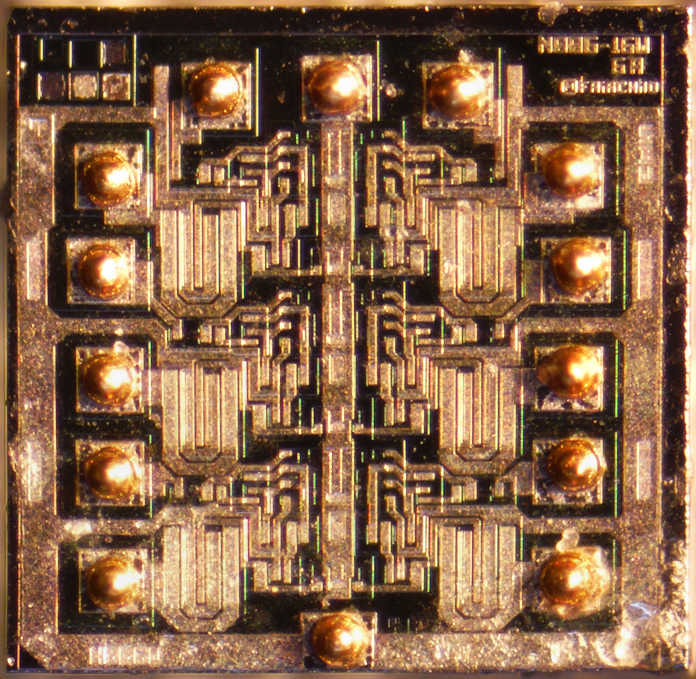 DM7406M die